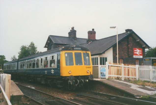 Mobberley railway station Original description: Train leaving Mobberley station A class 108 multiple unit leaves Mobberley station on a Manchester to Chester working (this was while the service still took the direct route via Sale). Details of this type of multiple unit are at Link ; this particular unit is now preserved on the Keith & Dufftown railway in Scotland and may be the same one pictured in NJ4250 : Keith Town Station.